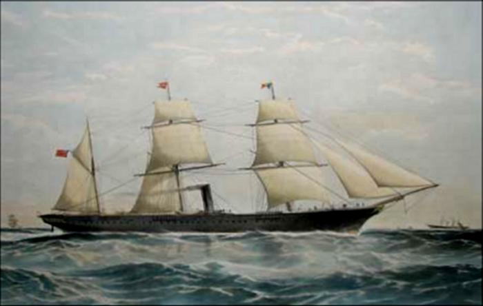 The Peninsular and Oriental Steam Navigation Company